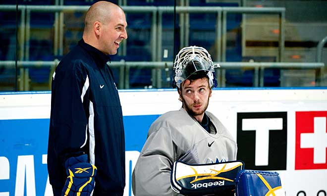 Granqvist and Gustavsson in the National team